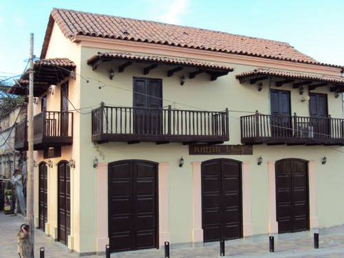 Lacorazza House - Barranquilla